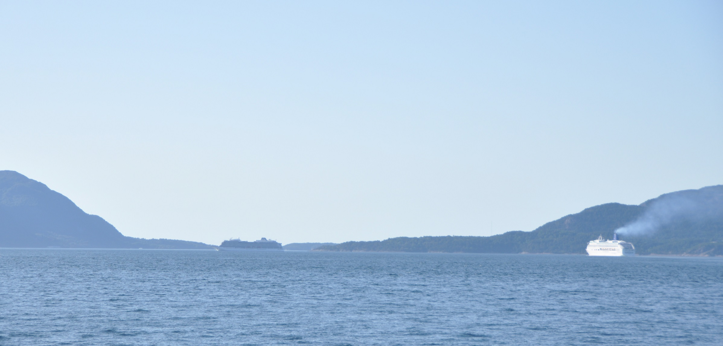 Two cruiseships at Moldefjord and Julsundet